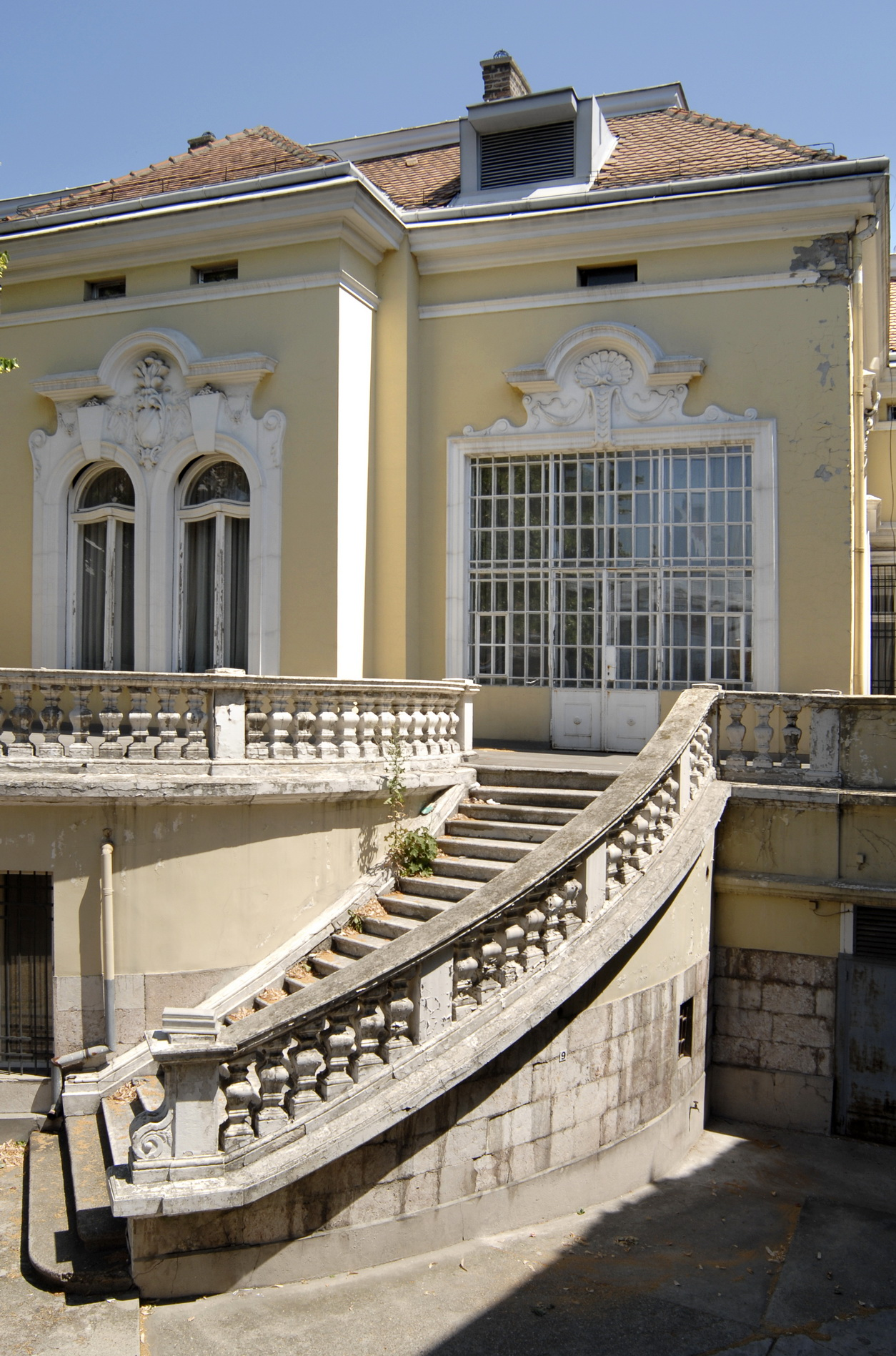 Krsmanoviceva kuca